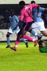 rhyl vs manchester